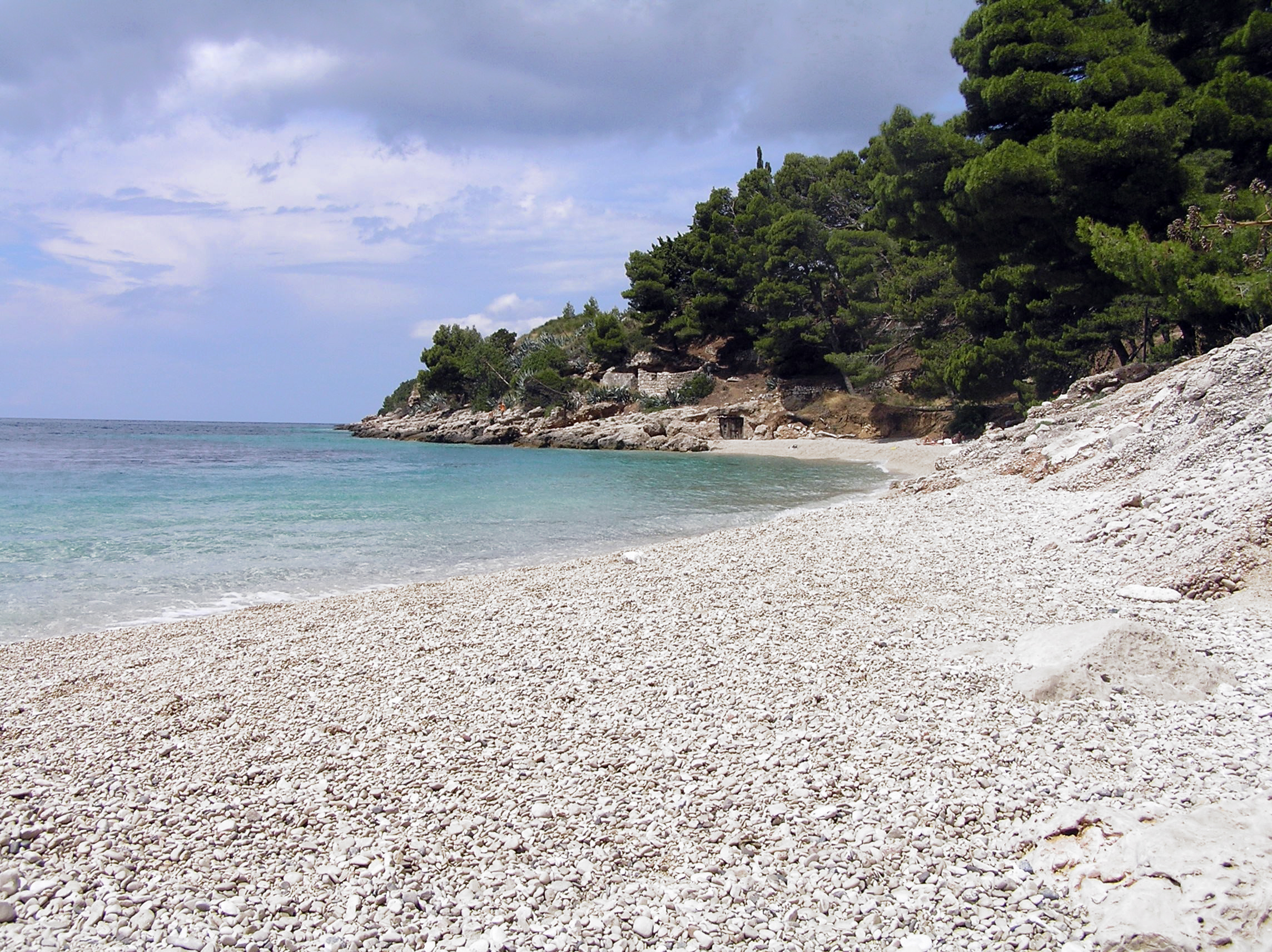 Beach in Murvica, Brač (island in the Adriatic Sea within Croatia)